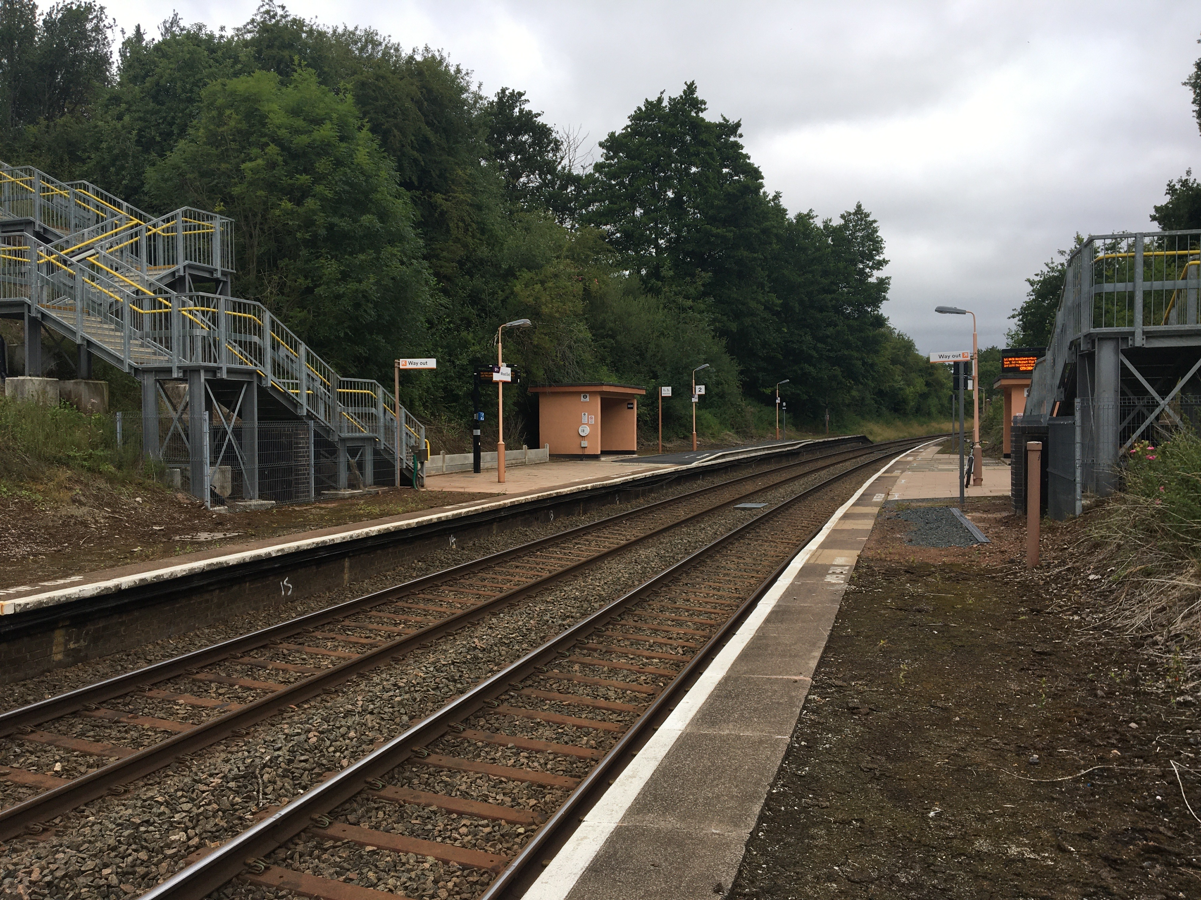 Wood End railway station serves the small village of Wood End in Warwickshire, England.